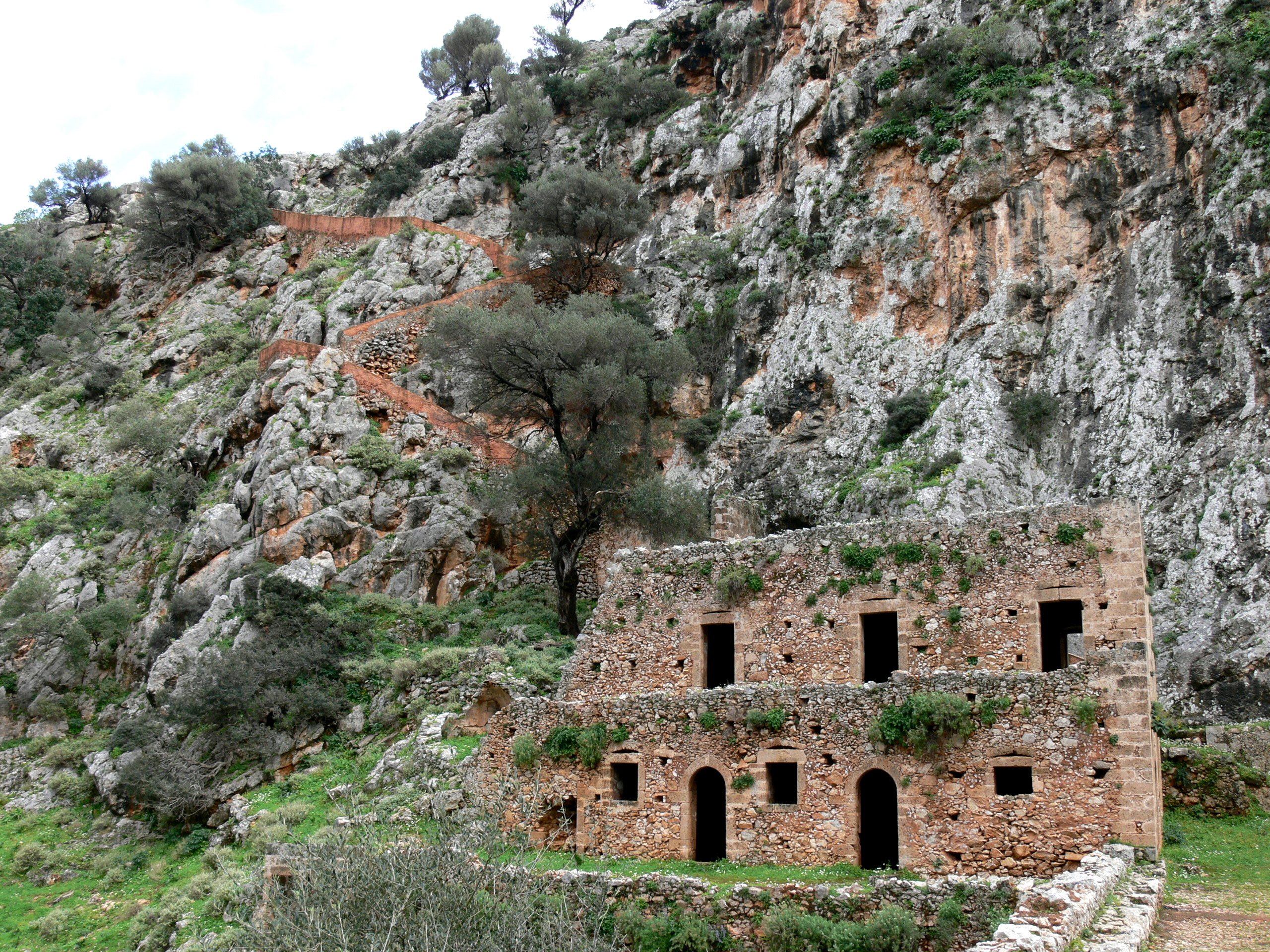 Katholikon monastery, Akrotiri ( Crete ). Monastery ruins and pilgrims´ path.